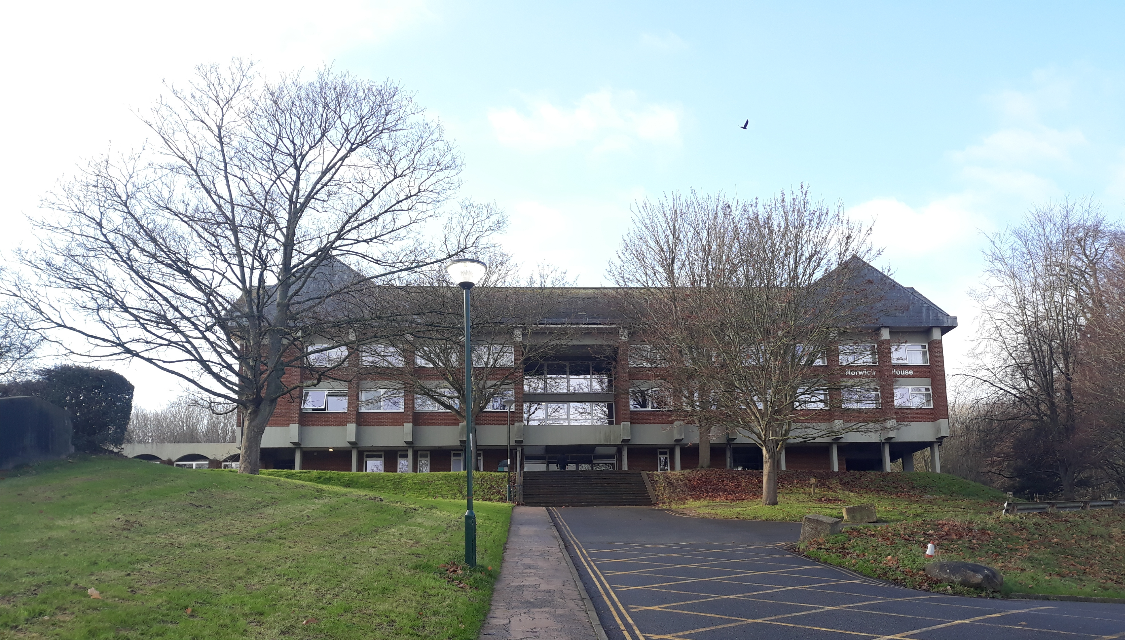 Norwich